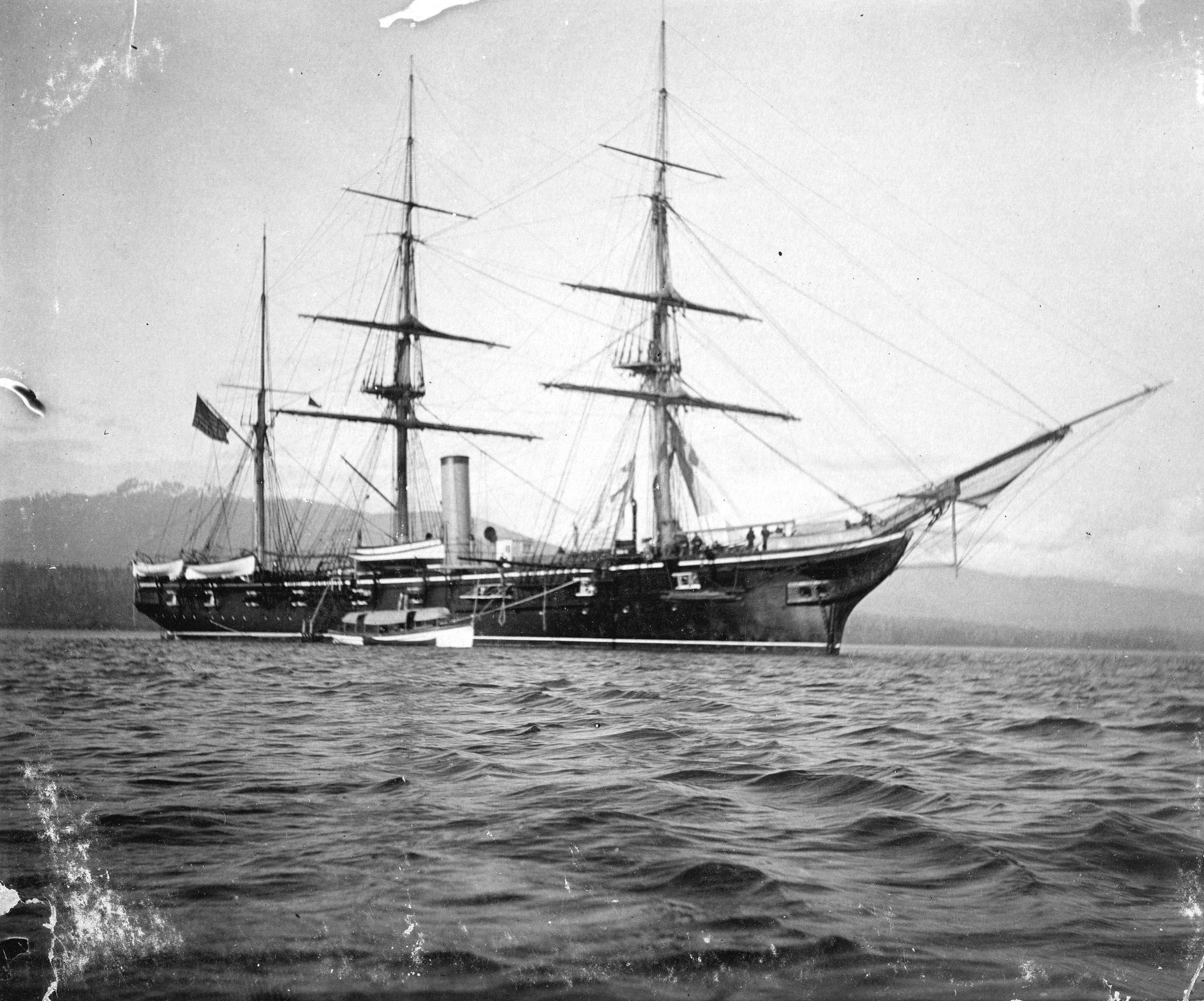 USS Mohican in Burrard Inlet, British Columbia, Canada.